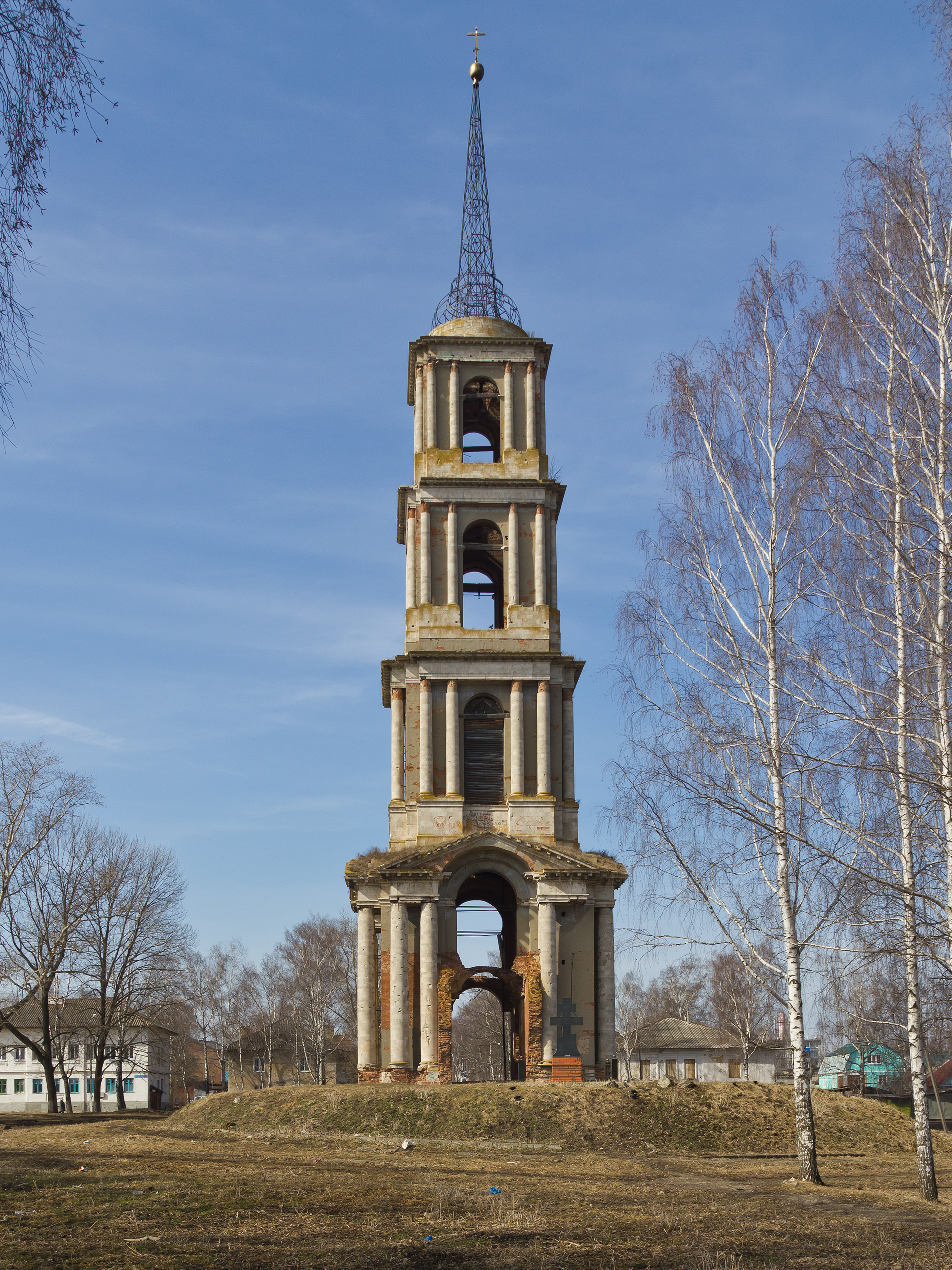 Bell tower of the former Saint Nicholas Church in Venyov, Tula Oblast, Russia.